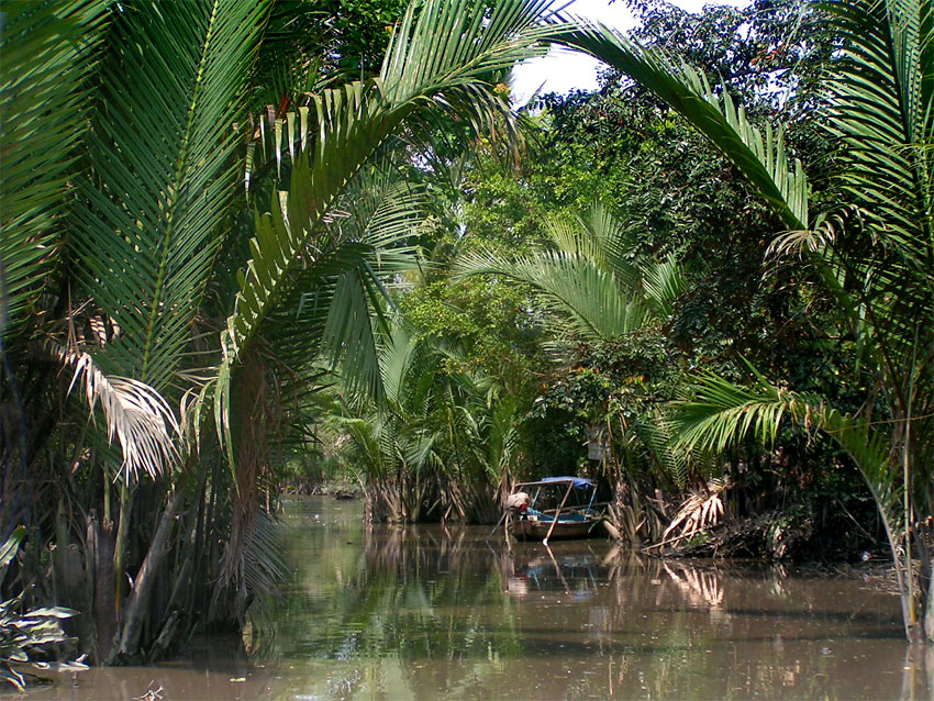 Mekong River Delta, Cần Thơ, Vietnam.